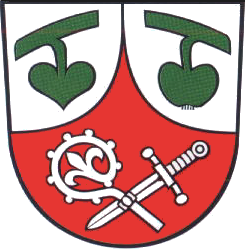 Coat of Arms of Effelder